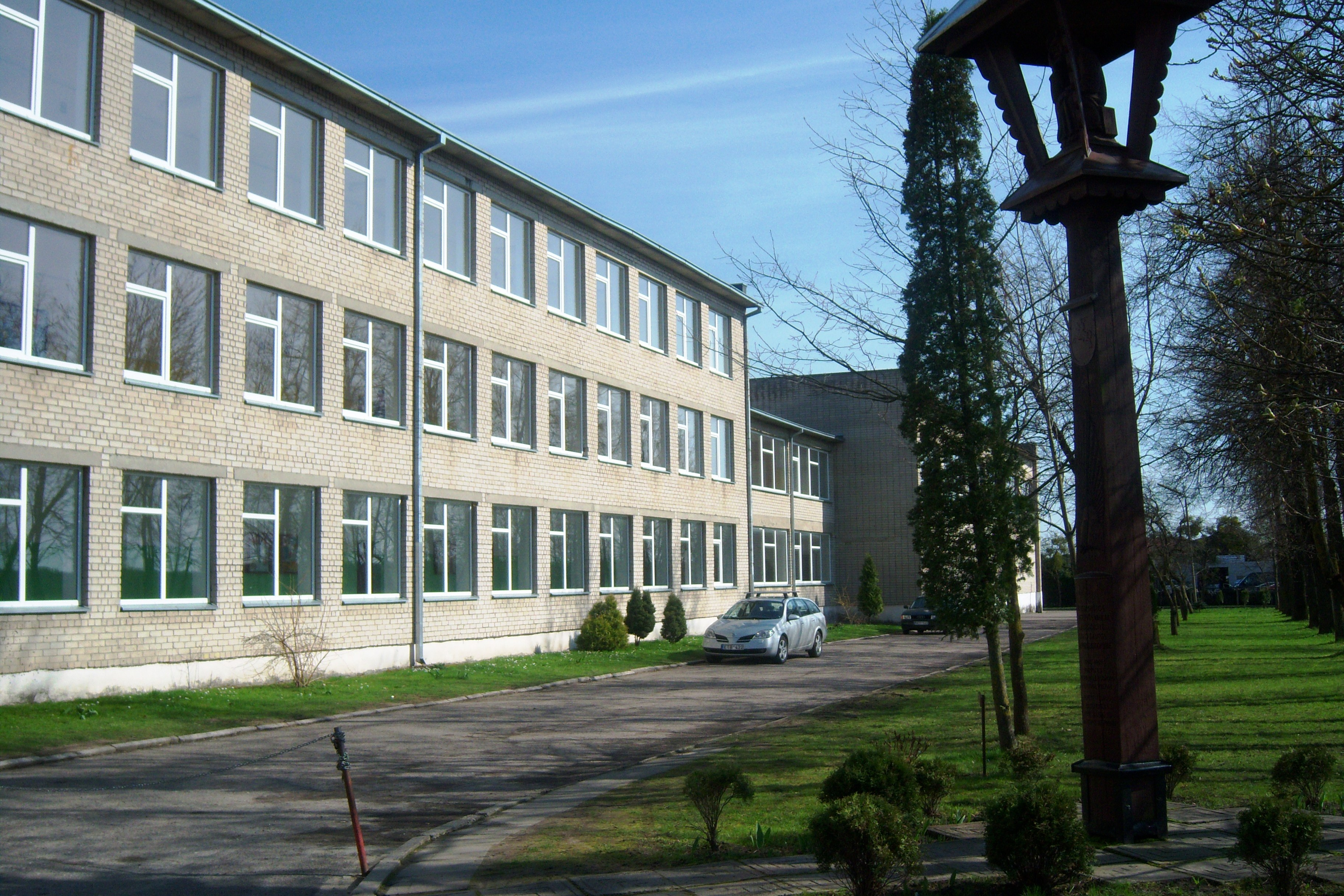 Garliava High school, Kaunas district, Lithuania